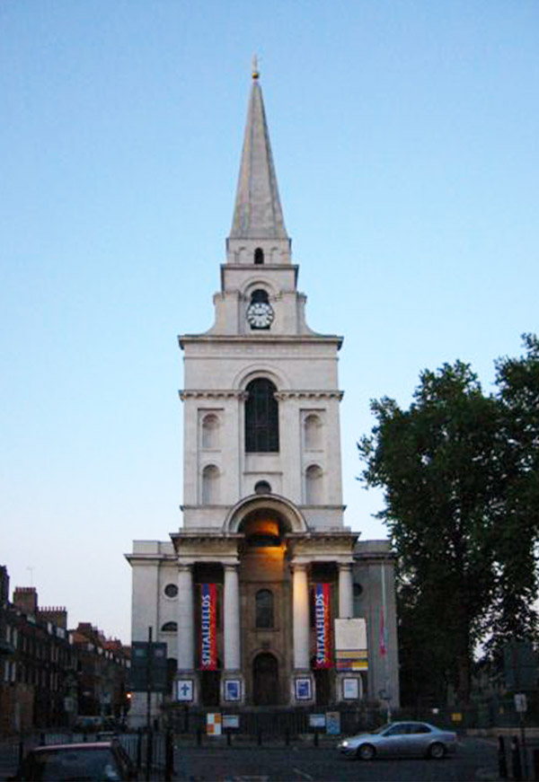 Christ Church Spitalfields. Photograph taken by Michael Reeve, 9 June 2002. Category:Images of London